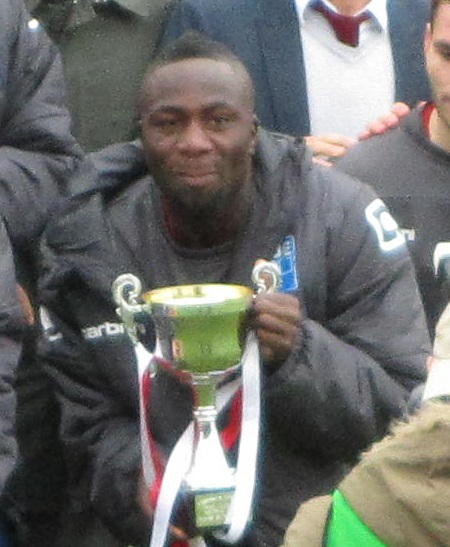 Moses Ashikodi